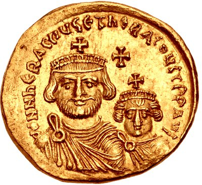 Heraclius, with Heraclius Constantine. 610-641. AV Solidus (20mm, 4.40 g, 6h). Constantinople mint. Struck 613-circa 616. ∂∂ NN ҺЄRACLIЧS ЄT ҺЄRA CONST P P AVC, crowned and draped facing busts of Heraclius and Heraclius Constantine; cross above